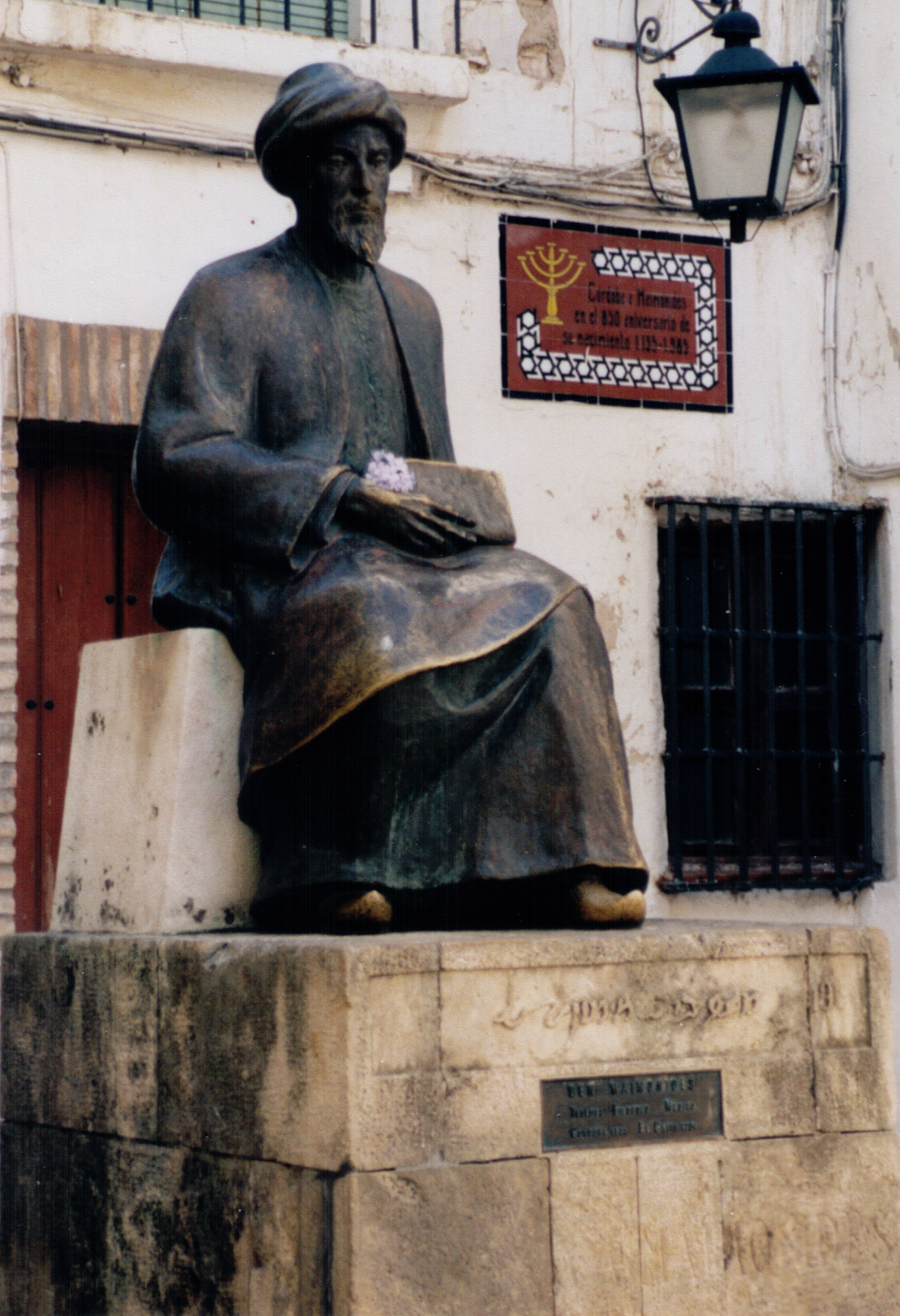 monument in Corduba